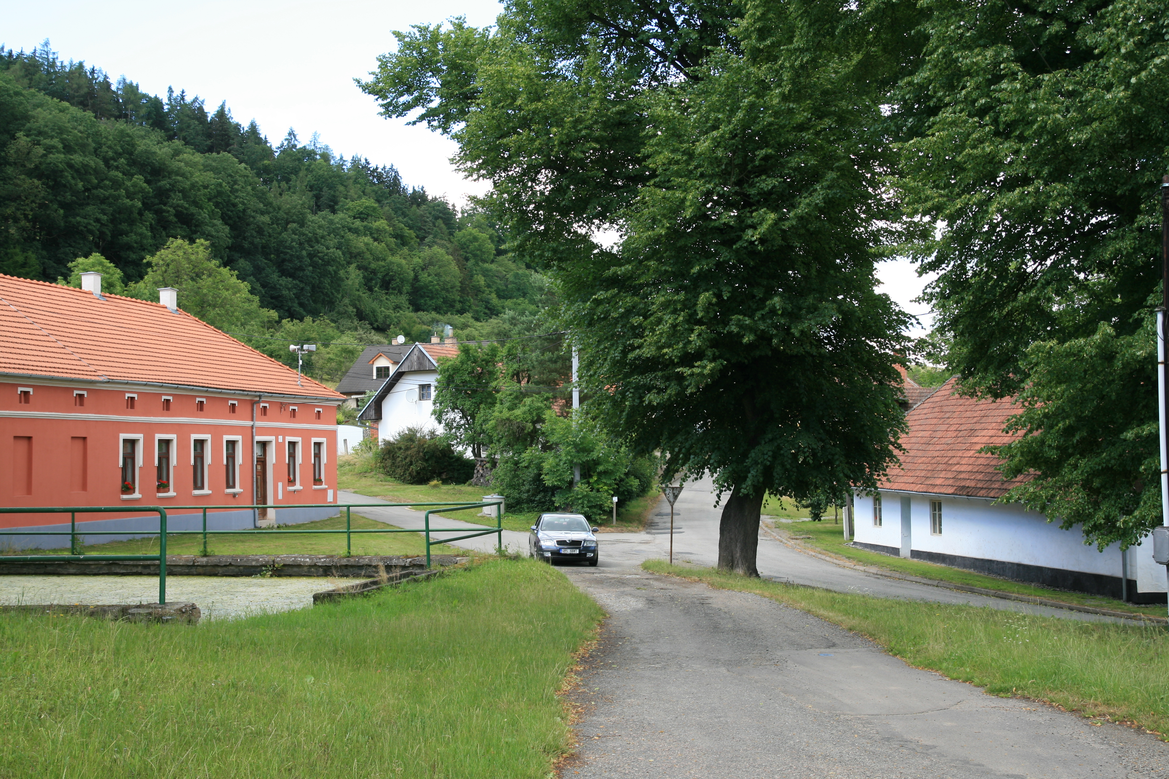 Žerůtky, Blansko District, Czech Republic. Village green.